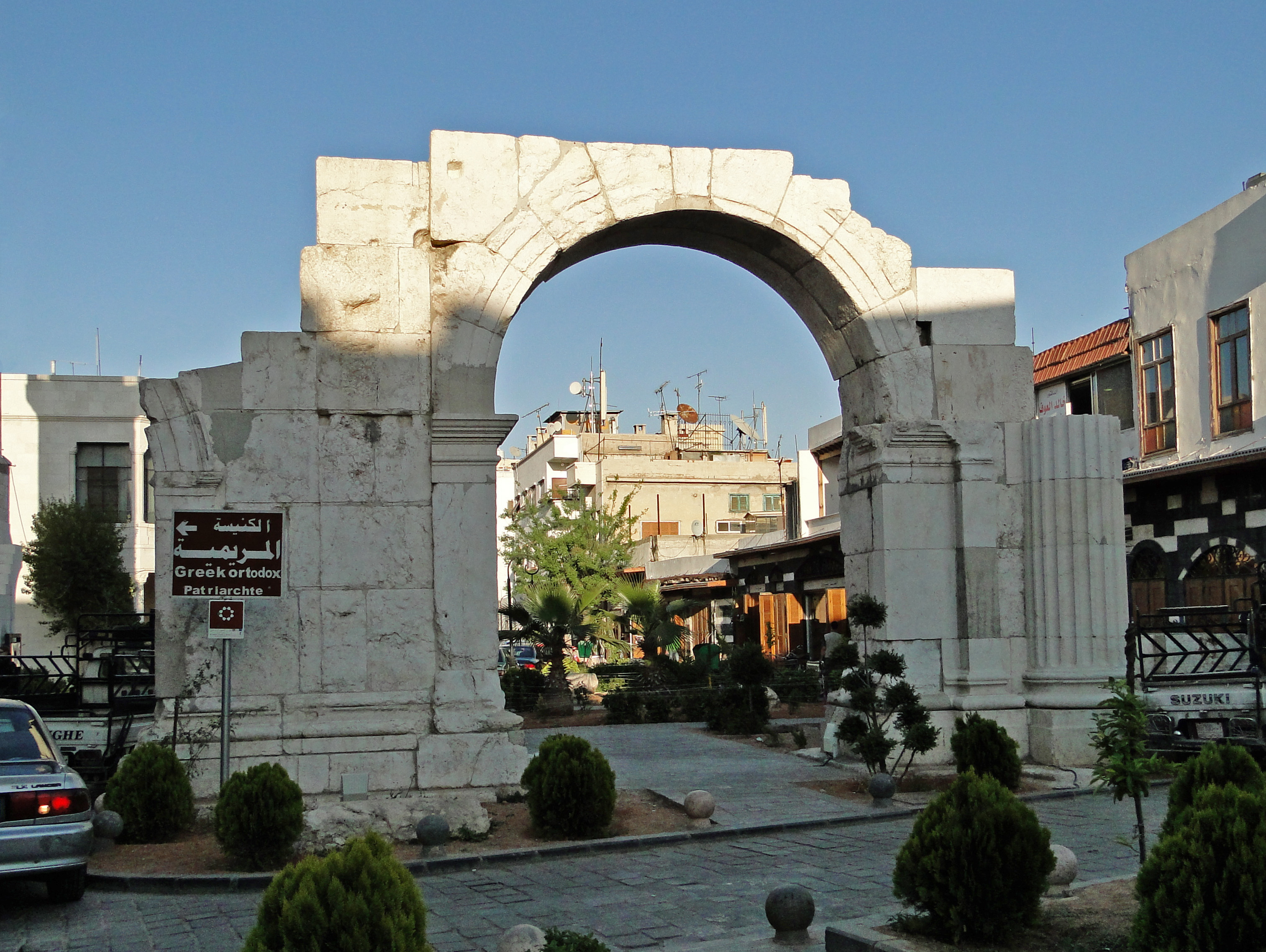 Ancient Roman triumphal arch (Al Kharab) on Street Called Straight, Damascus, Syria